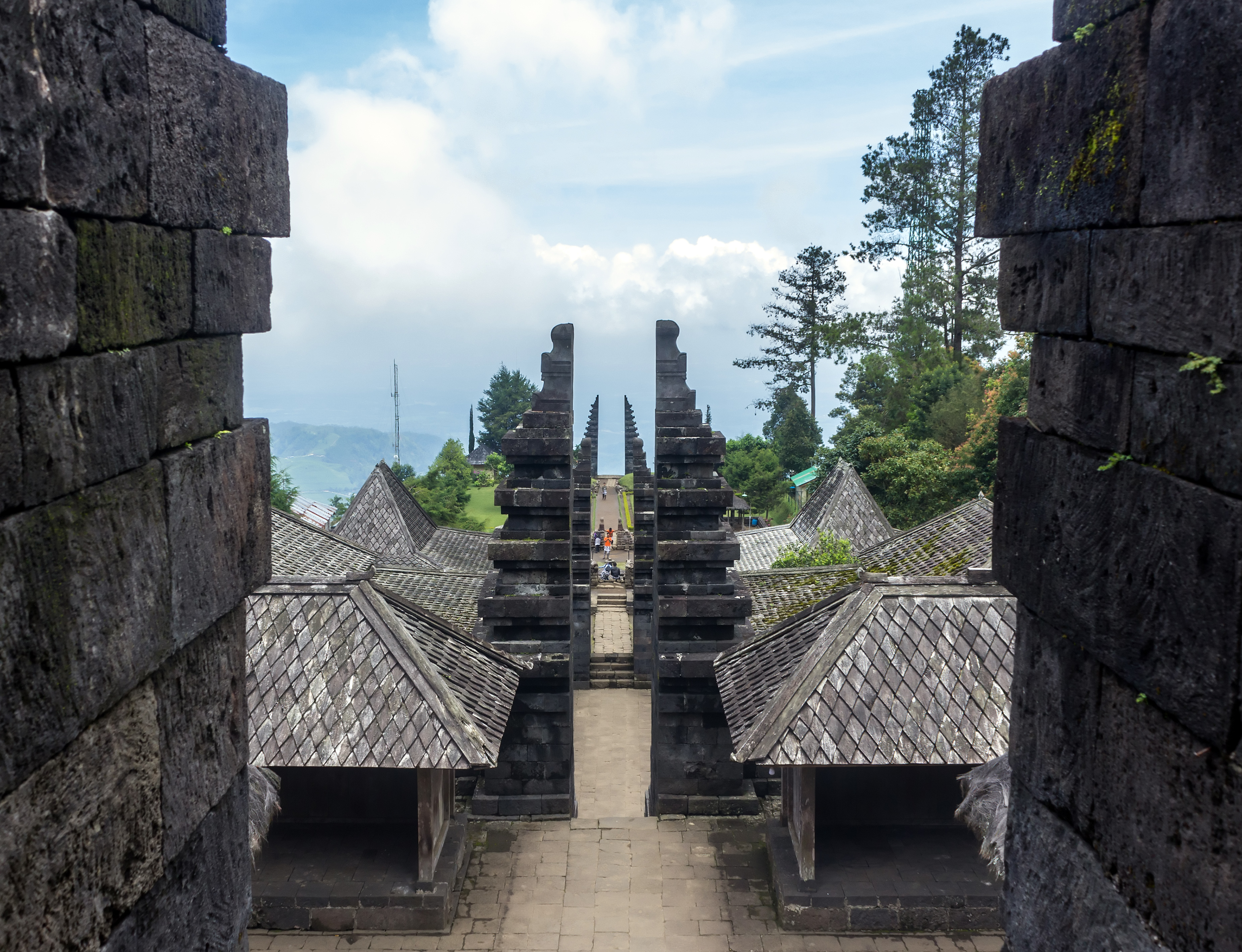 Roadway away from Cetho Temple, 2016-10-13